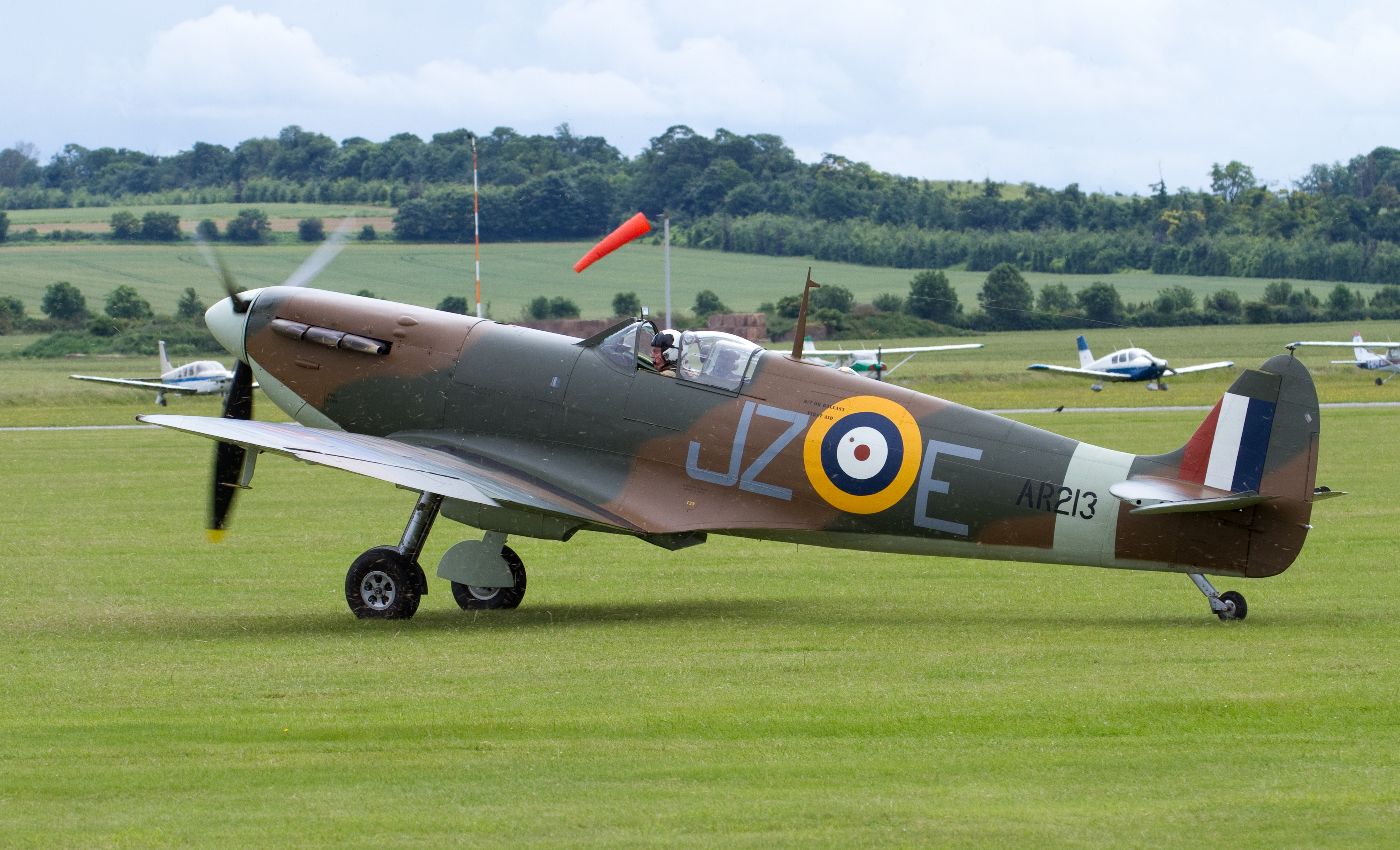 Spitfire Mk1A AR213